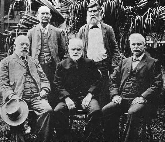 Five surviving members of John McDouall Stuart's final exploring expedition, 1861-2; left to right: W.P. Auld; H. Nash; F.W. Thring; J. Gorrery; S. King